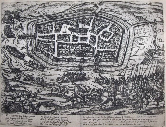 Liberation of Lochem (Netherlands) from the Spanish siege in 1582